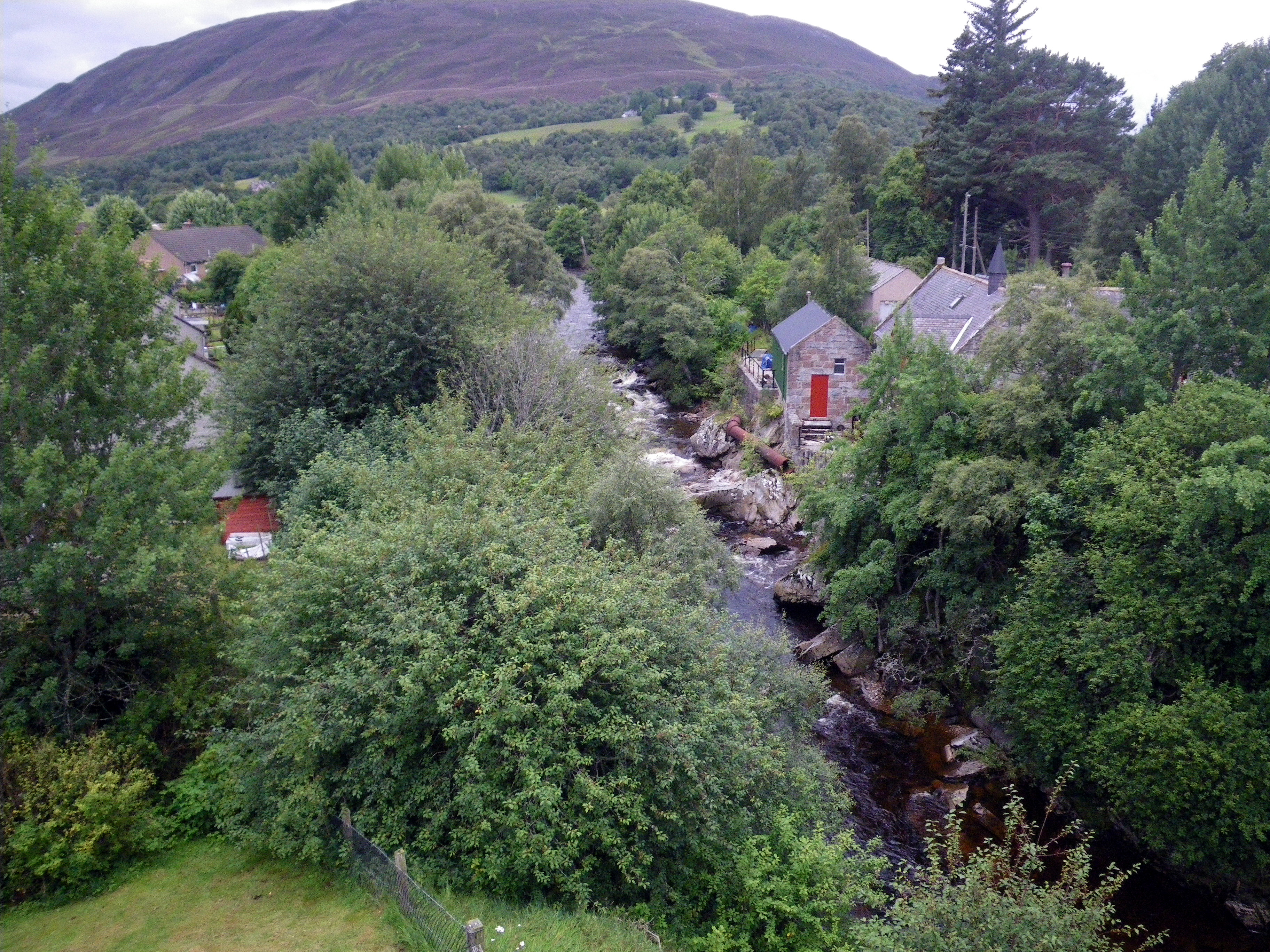 Pole aerial photo from above The Royal Castle of Kindrochit in Mar